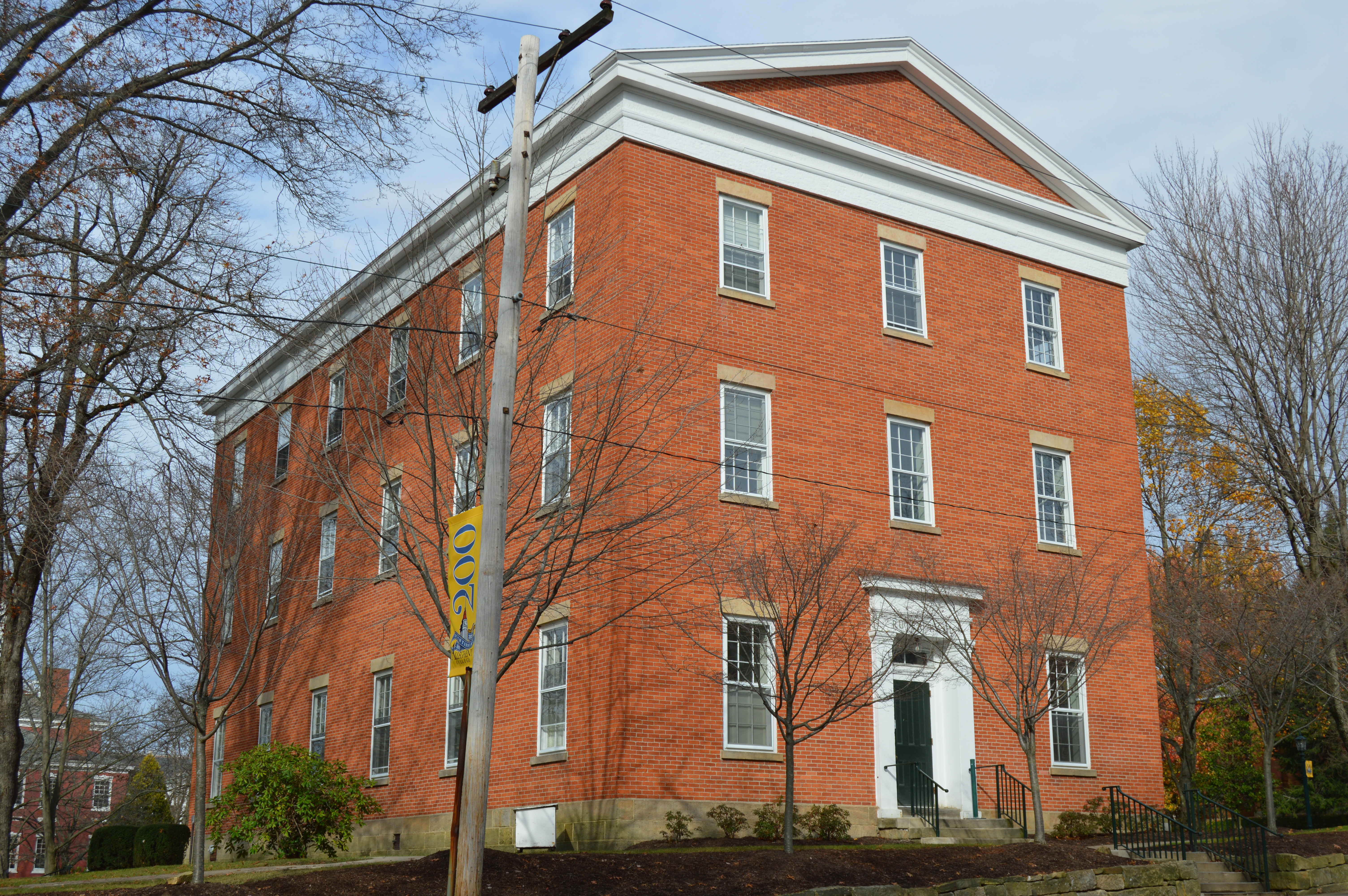 Southern side and front of Ruter Hall, located on N. Main Street (Pennsylvania Route 86) on the campus of Allegheny College in Meadville, Pennsylvania, United States. Built in 1853, it is listed on the National Register of Historic Places.